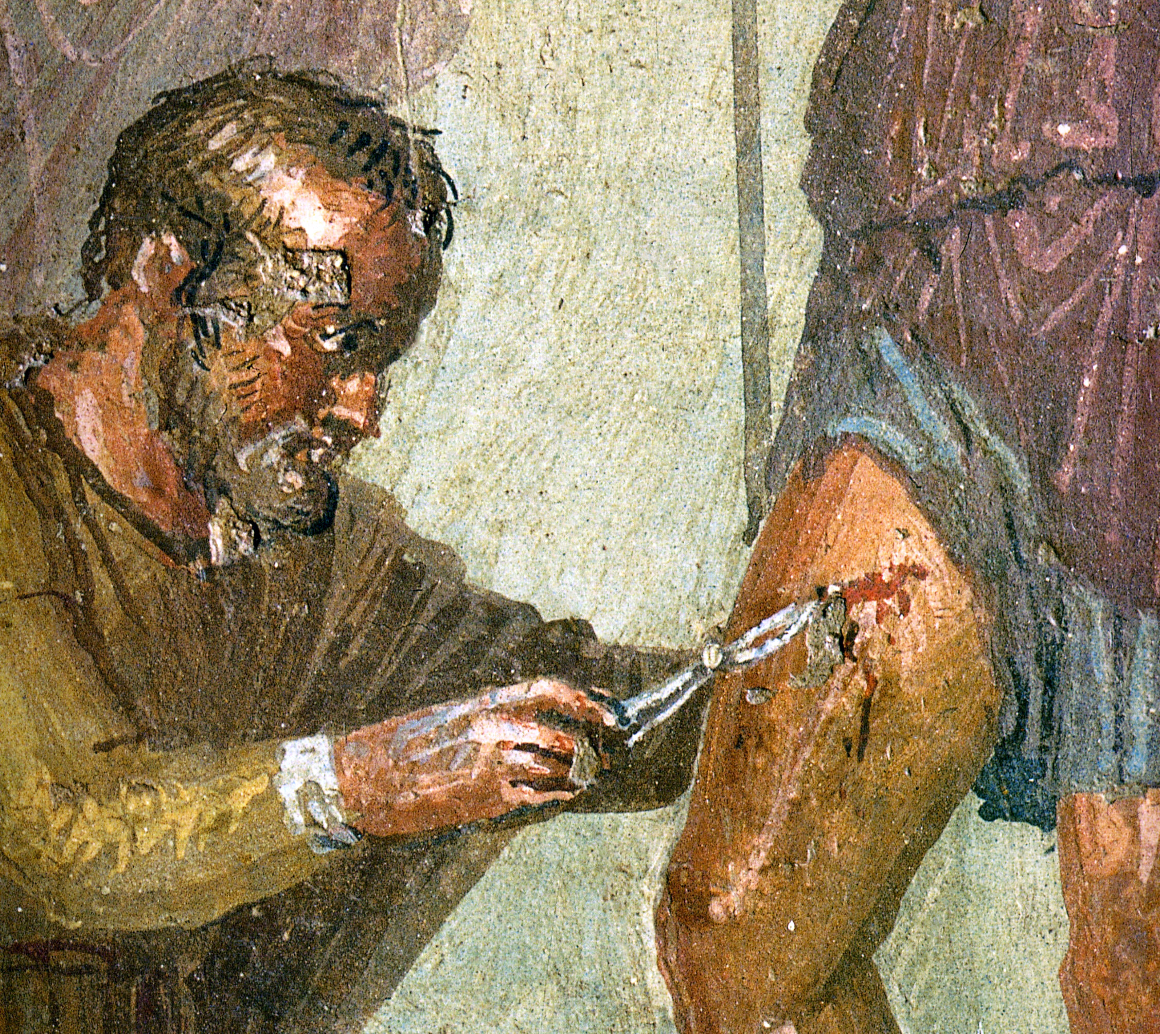 The physician Iapyx tries to remove an arrows head from the thighs of Aeneas using a forceps (Virgil Aeneid XII.383-440) Roman fresco from the Casa di Sirico (VII 1, 25.47) in Pompeii.